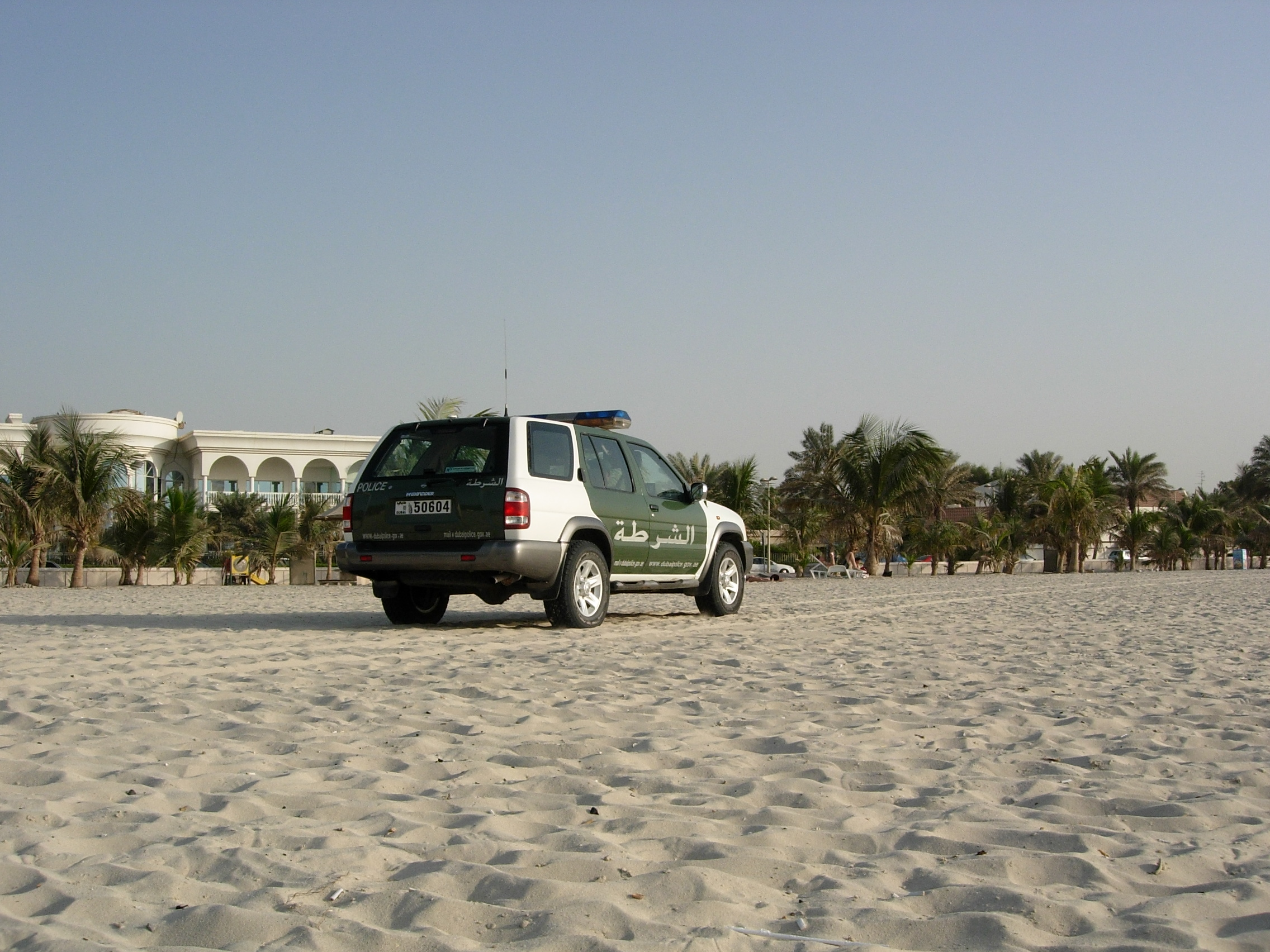 Dubai police beach patrol